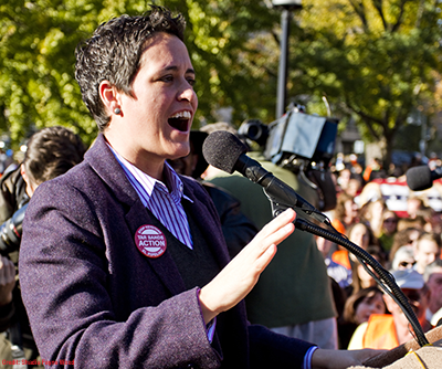 Mizeur as a featured speaker on 11/06/2011 at the "Surround the White House" Rally in 2011.